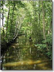 German and Dutch River